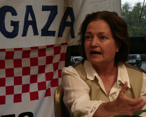 Mairead at press conference